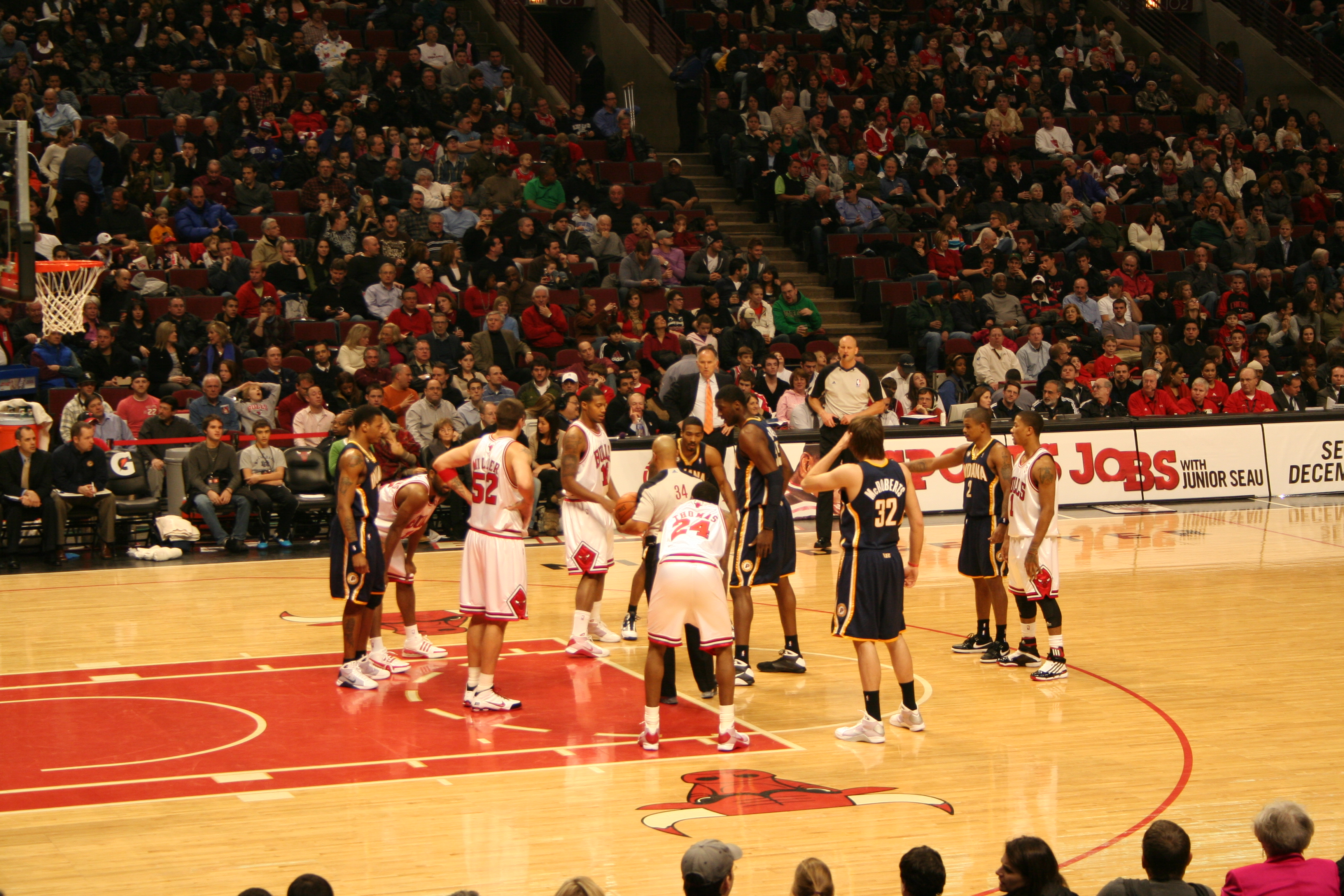 Jump ball at free throw line at Indiana Pacers at Chicago Bulls basketball game